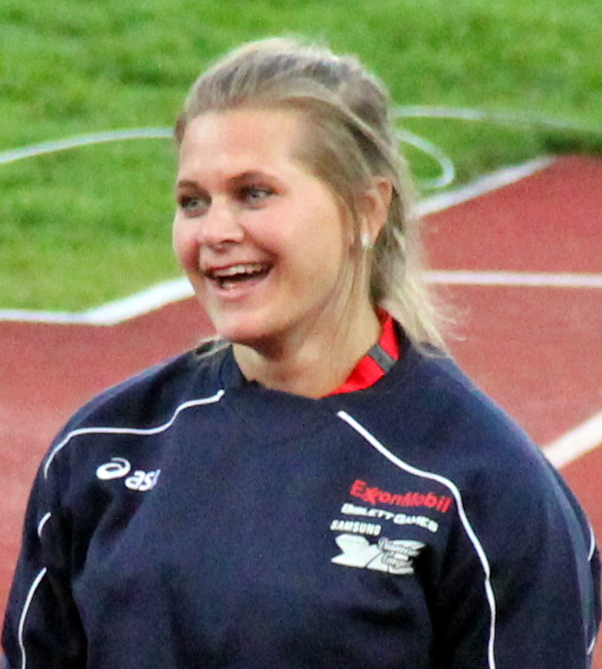 Trude Raad, hammerthrower, at Bislett 2012